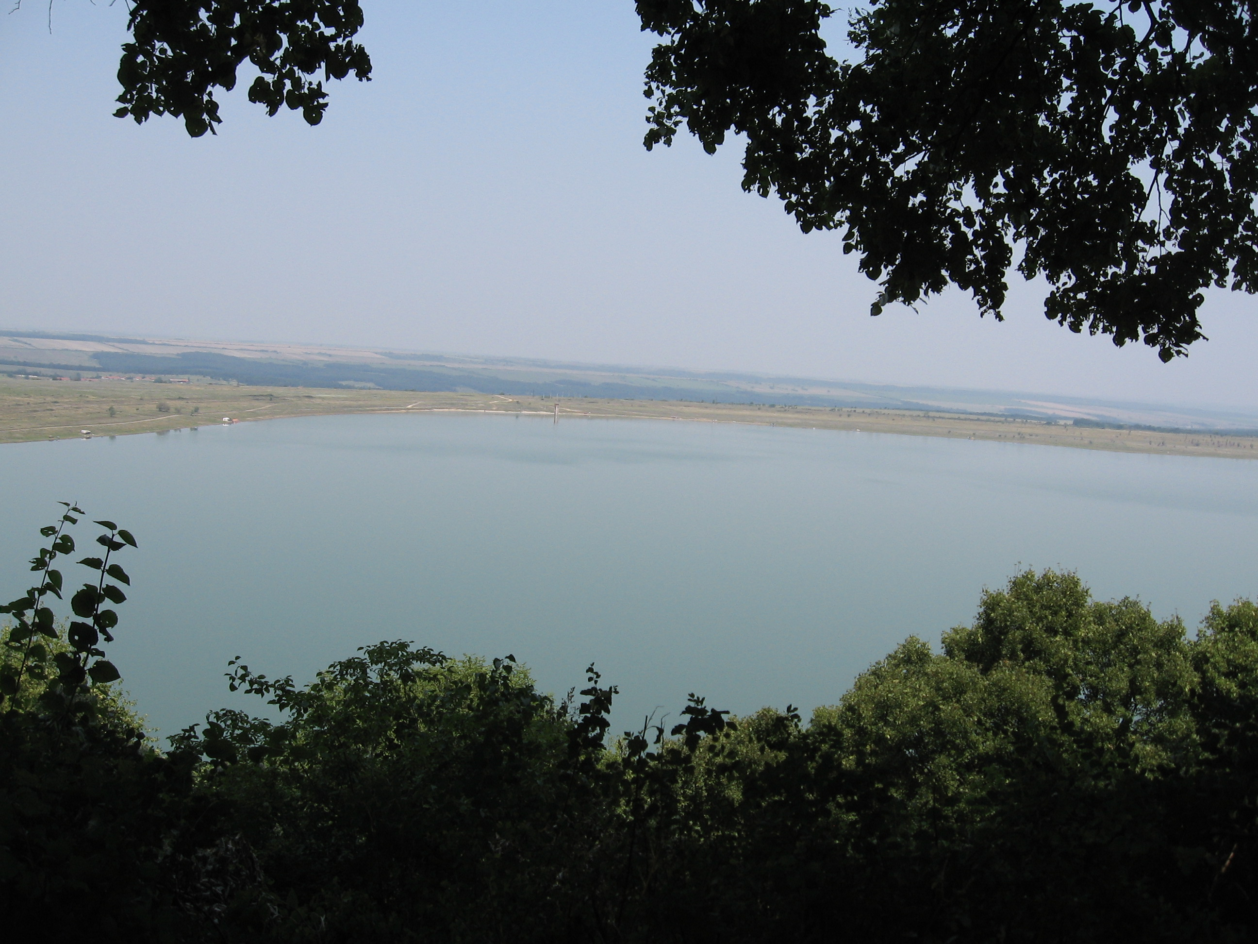 A view of Lake Rabisha, the largest inland fresh waterlake in Bulgaria.